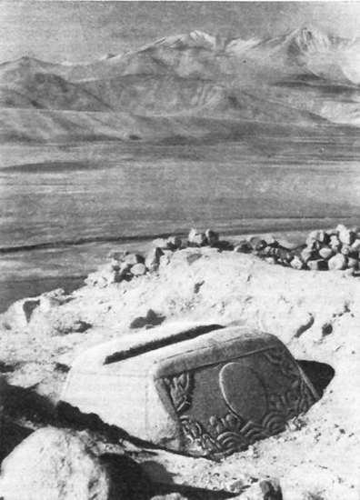 The plinth of a Chinese monument, on which carving the story of battle of Yashilkul in 1759, set by the Lake Yashilkul. The stele was ruined by Russian army in 1890s. Some parts of the stele were collected in Tashkent Museum. Now the plinth is stored in Khorog museum, Tajikistan.